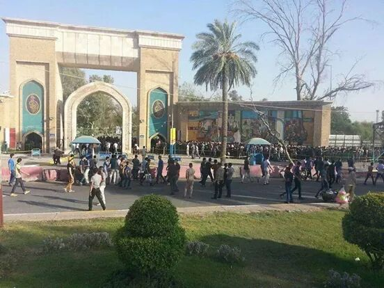 Al Zawra’a Gardens